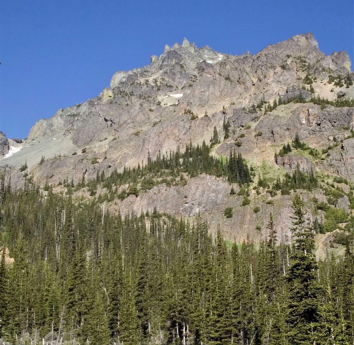 Sundial in The Needles, east aspect from Royal Basin